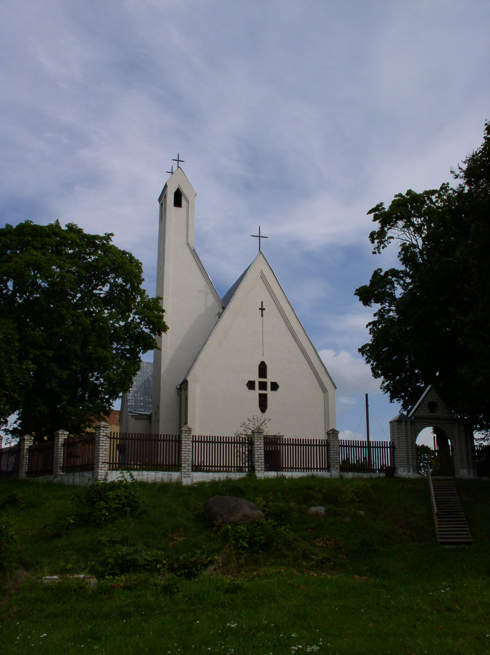 Church of Saint Casimir. Lahoisk, Belarus.